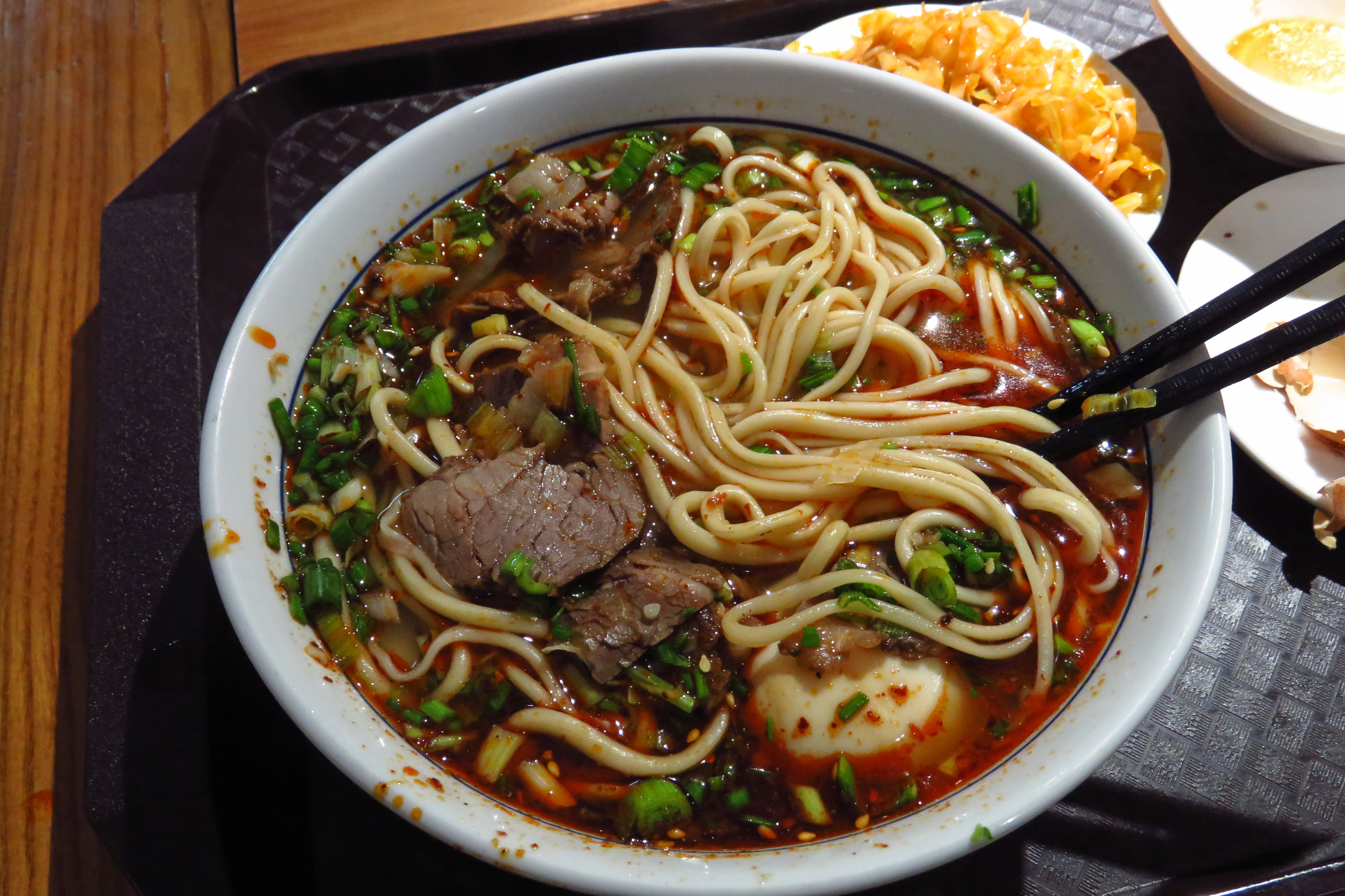 Noodle specification: Erxi (second thin). A breakfast for just CNY16 - noodle soup for 7, beef slices for 7, egg for 1 and pickles for 1. This is what one would actually have for breakfast in Lanzhou, where such beef noodles are called "beef noodles" instead of "Lamian" - it is said that the restaurants with "Lamian" titles are run by people from Qinghai.